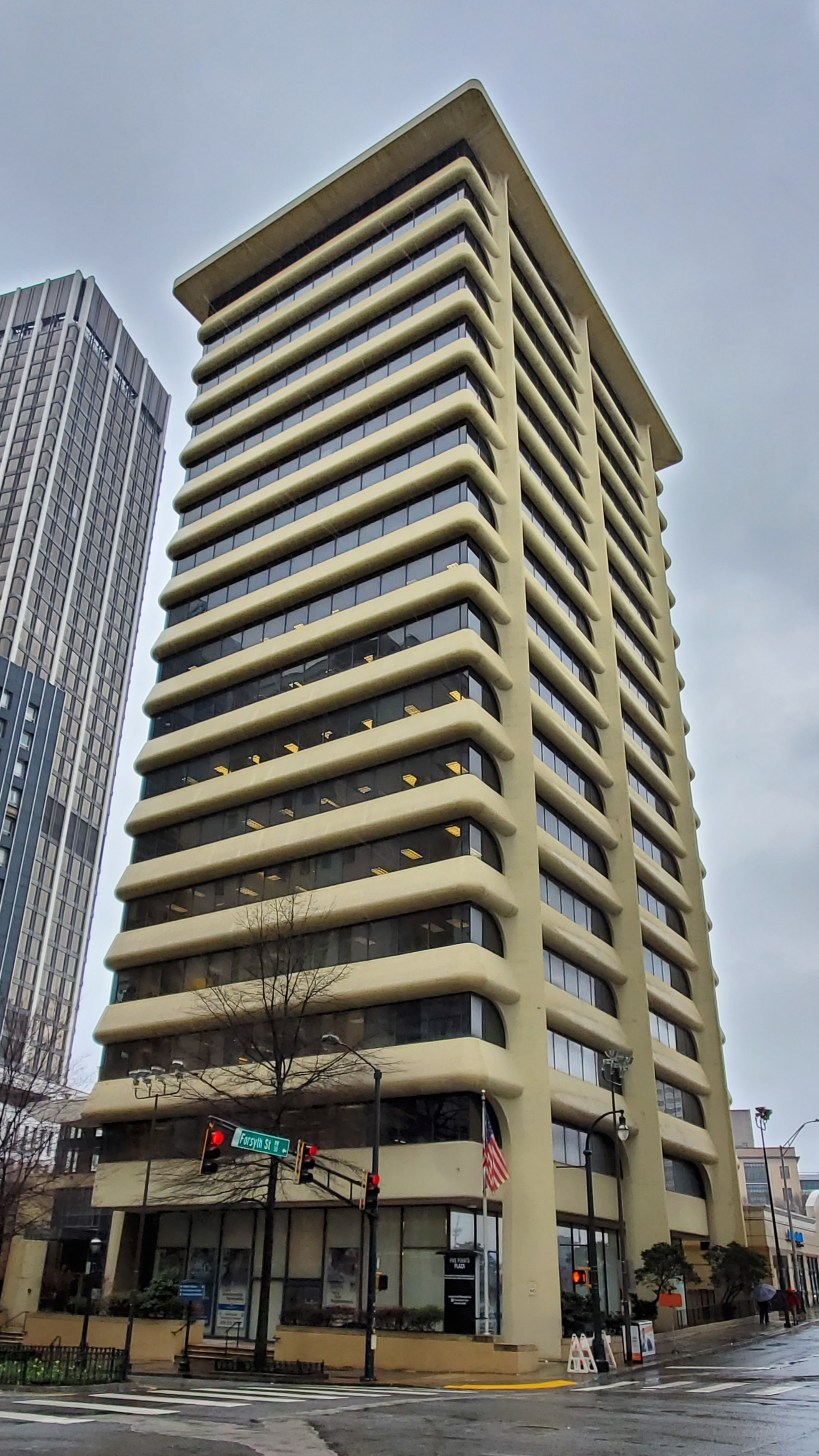 Five Points Plaza in downtown Atlanta, Georgia.